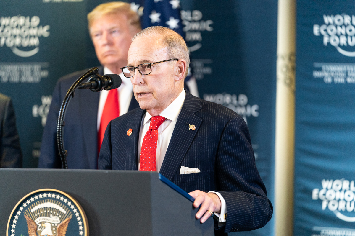 President Donald J. Trump listens as Assistant to the President for Economic Policy Larry Kudlow speaks at a press conference during the 50th Annual World Economic Forum meeting Wednesday, Jan. 22, 2020, at the Davos Congress Centre in Davos, Switzerland. (Official White House Photo by Shealah Craighead)